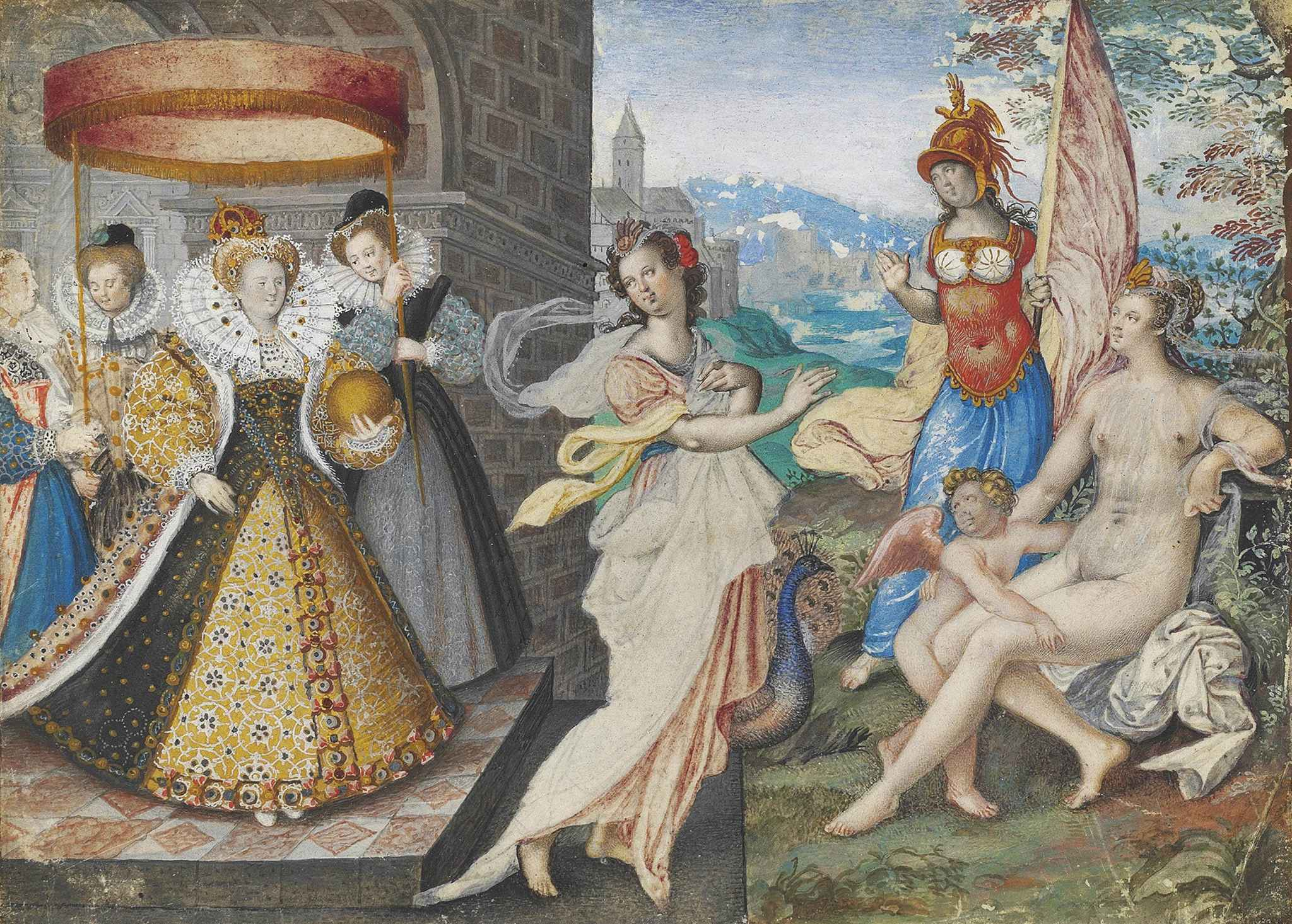 A reworking c. 1588, with updated costume, by Isaac Oliver of the 1569 painting variously attributed to Hans Eworth or Joris Hoefnagel.